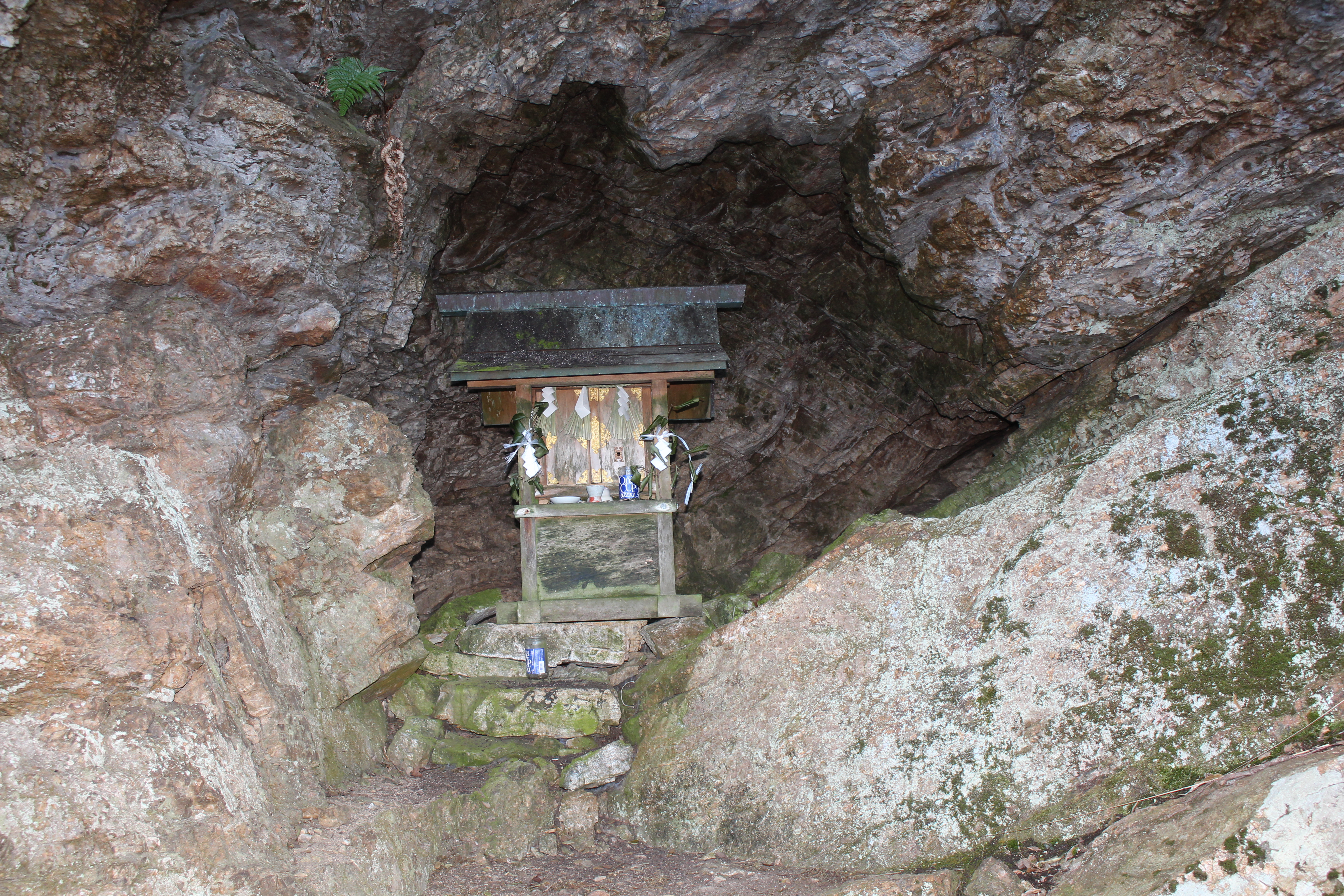 Amagoi-jinja on Mount Amagoi inTahara, Aichi prefecture, Japan.